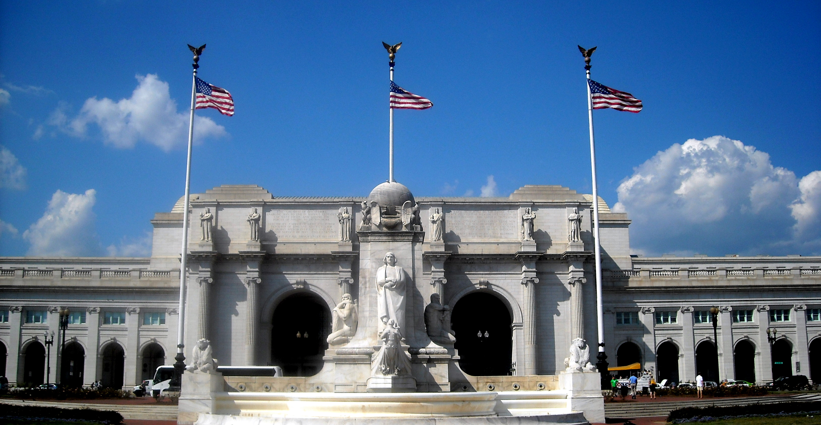 Union Station and the Christopher Columbus Memorial Fountain located in Washington, D.C.